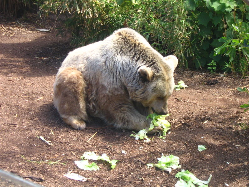 I took this photo at the Adelaide Zoo, October 2006.